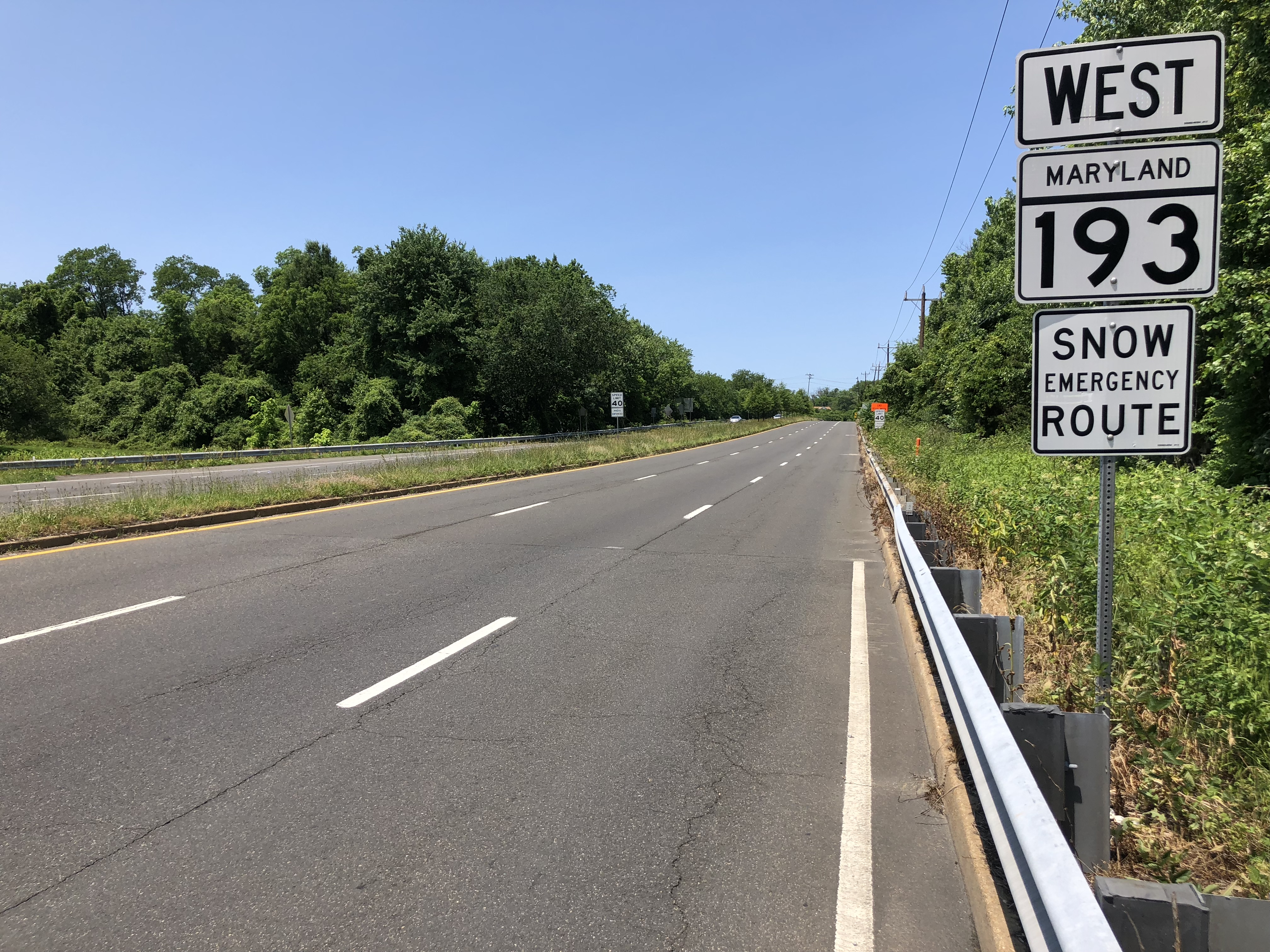 View west along Maryland State Route 193 (University Boulevard) at Rhode Island Avenue in College Park, Prince George's County, Maryland